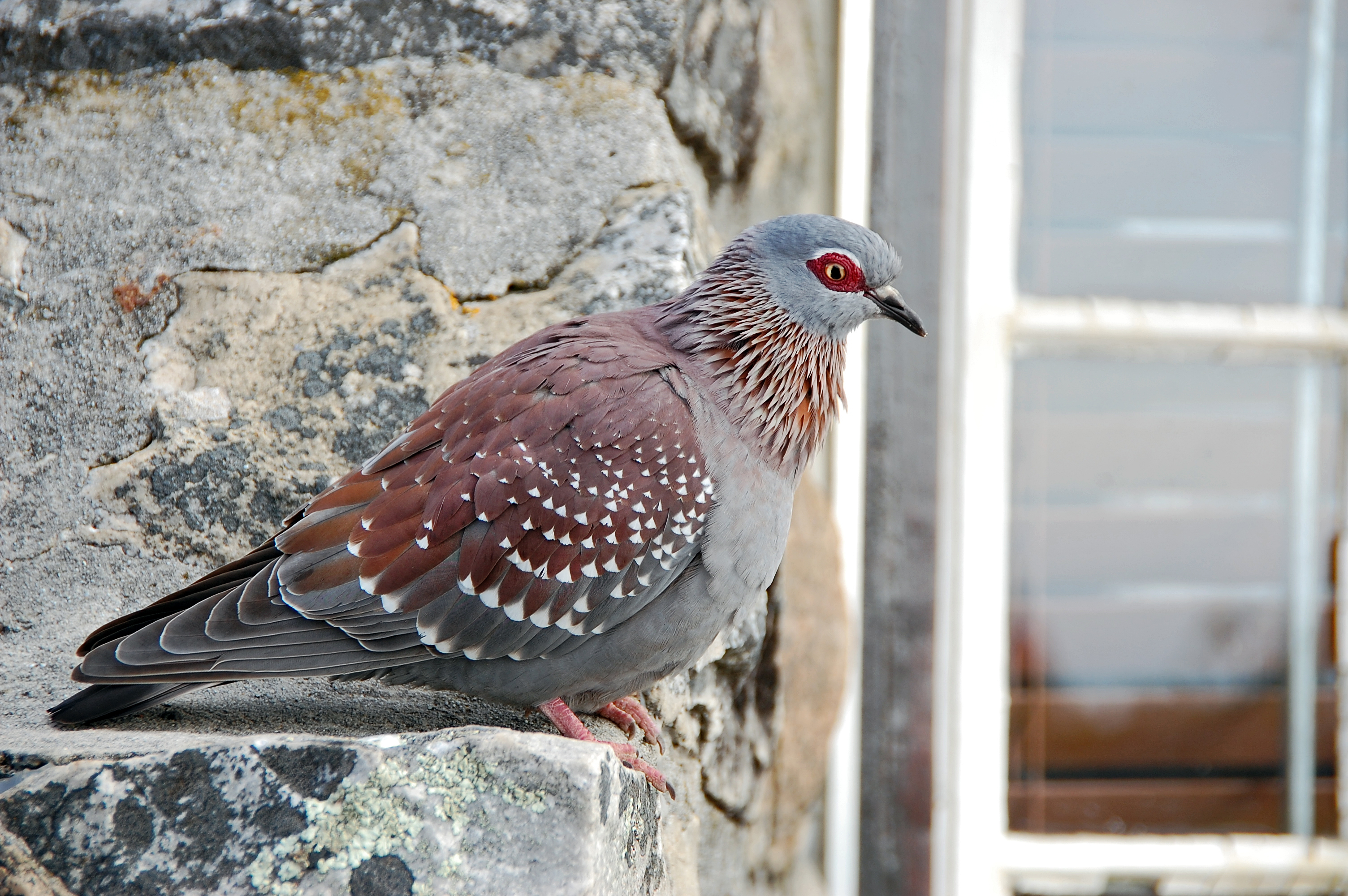 speckled pigeon Columba guinea Table Mountain Cape Town